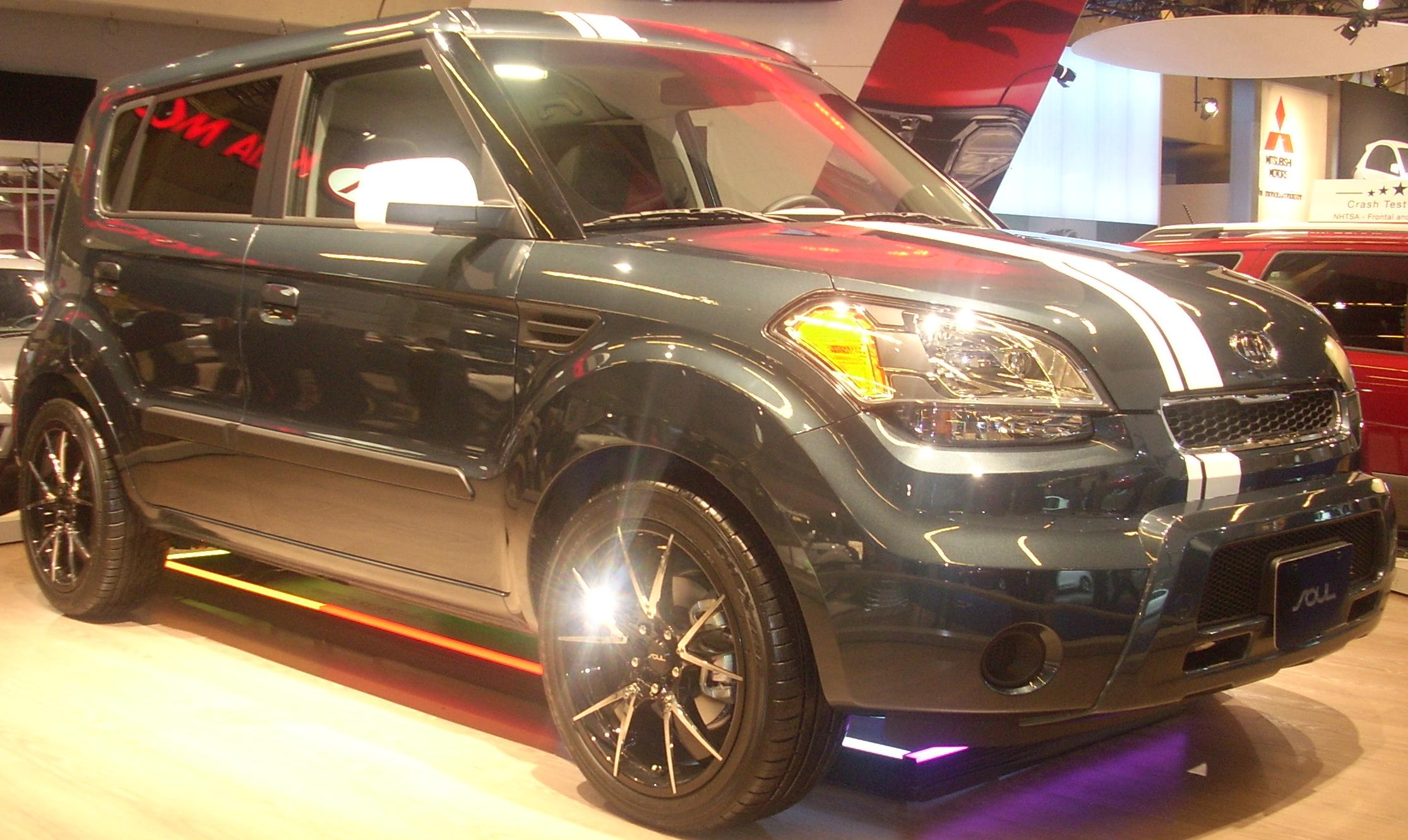 2010 Kia Soul photographed at the 2009 Montreal International Auto Show